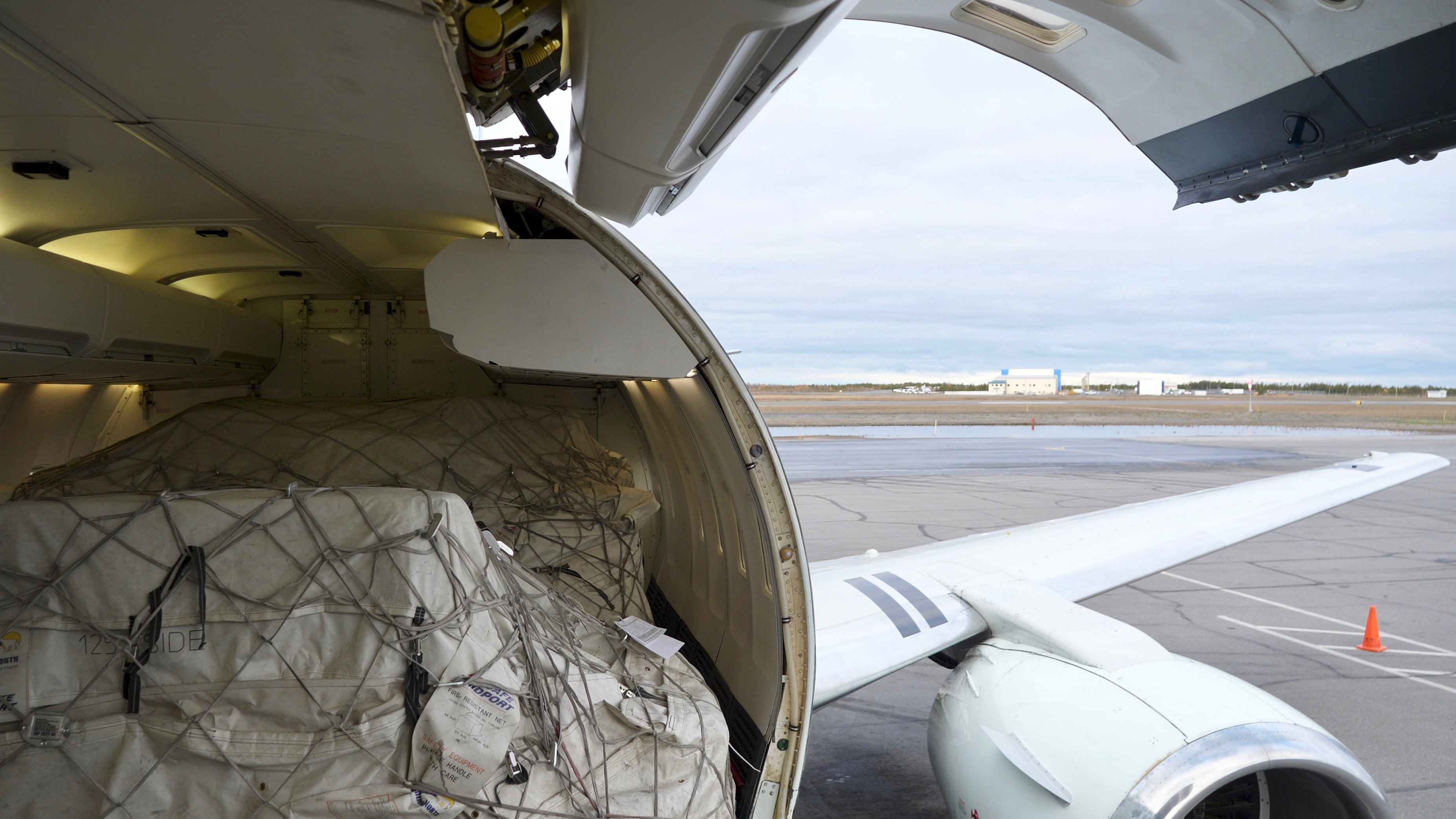 The interior of one of Canadian North's 737-300s Combi section.